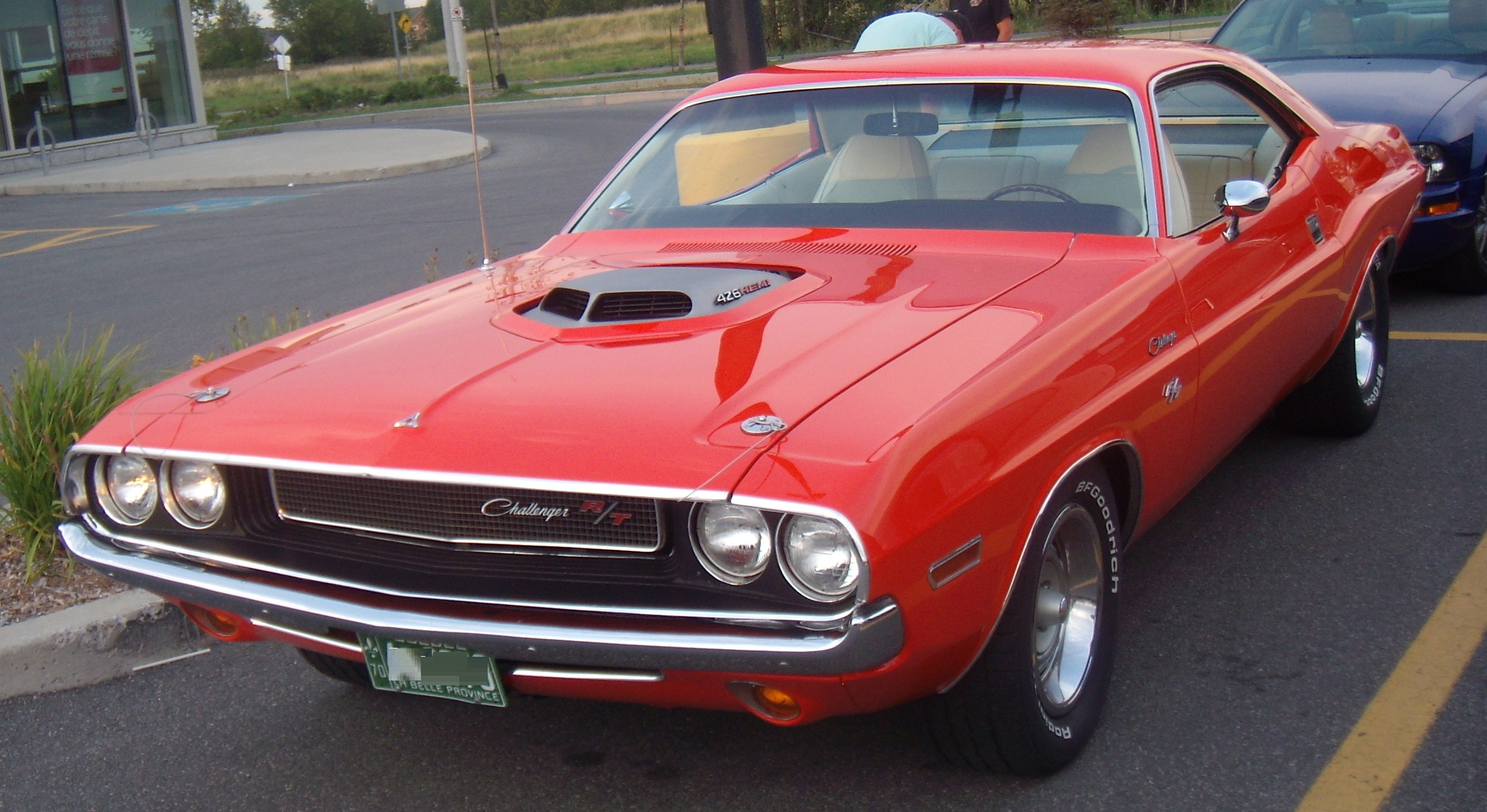 1970 Dodge Challenger R/T 426 HEMI photographed in Vaudreuil-Dorion, Quebec, Canada at the Auto classique Bellepros Vaudreuil-Dorion.